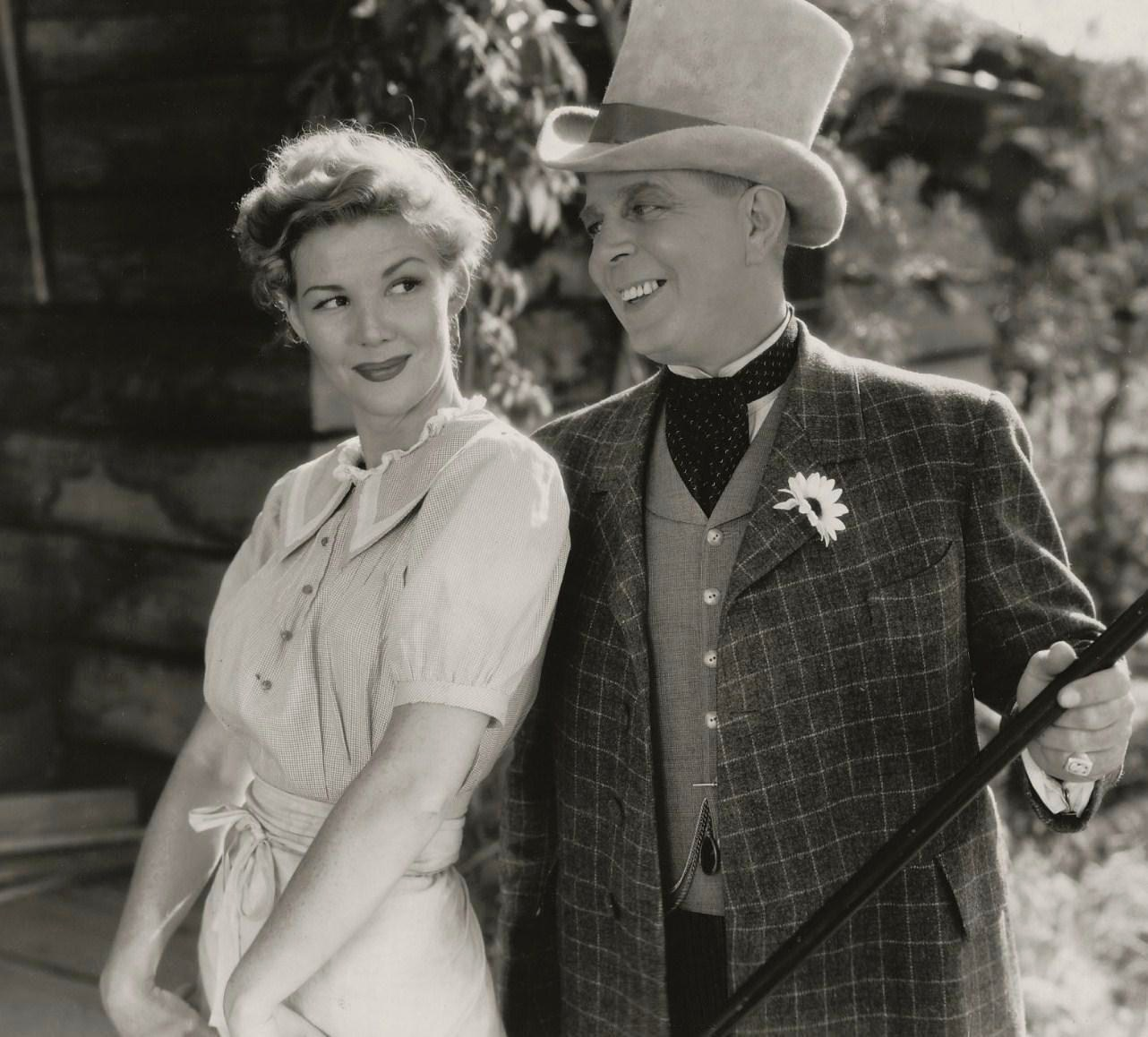 Veda Ann Borg and Hoot Gibson in Marked Trails - publicity still (original image damaged, modified and cropped : see source)